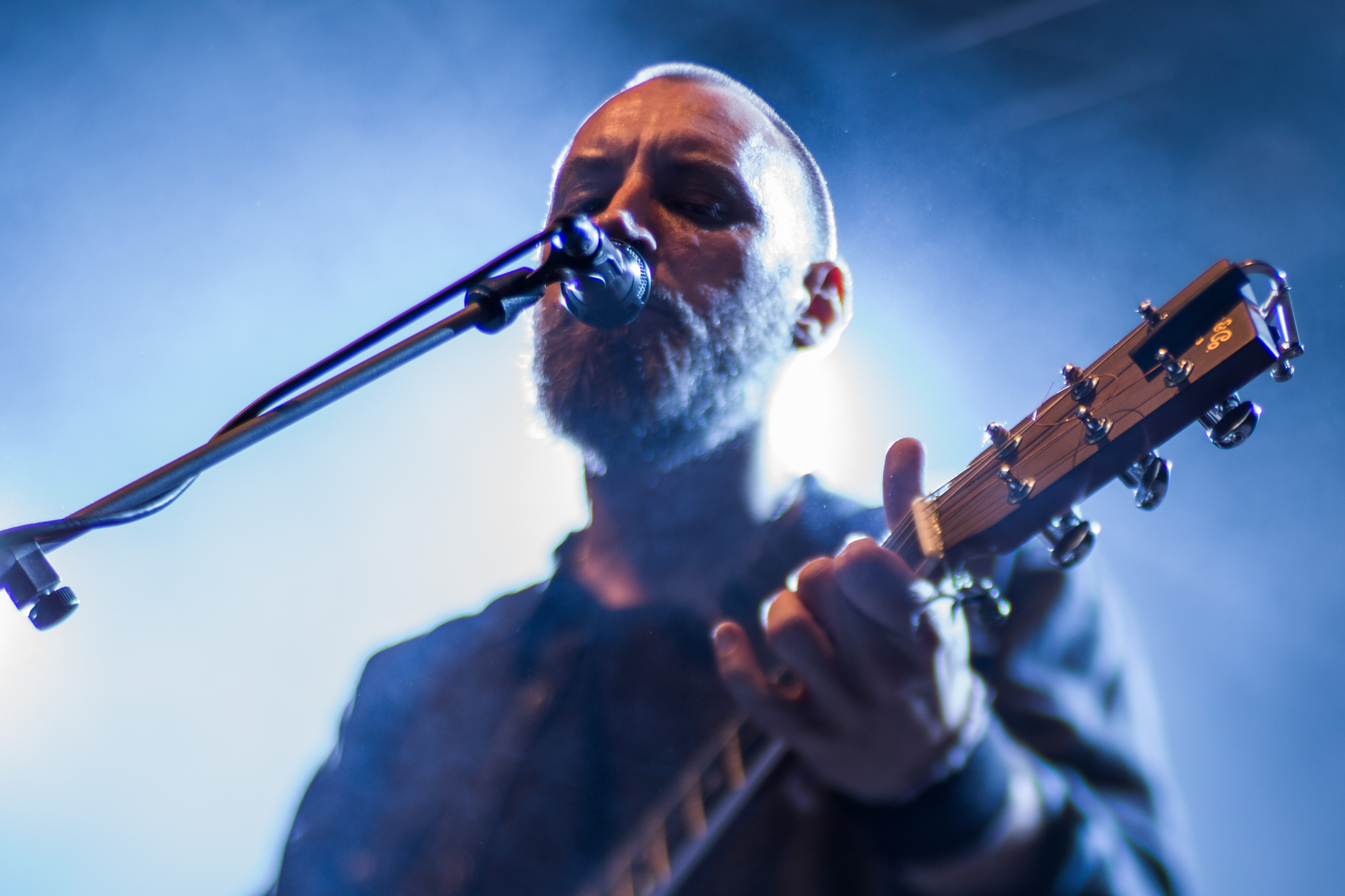 Festivalsommer This photo was created with the support of donations to Wikimedia Deutschland in the context of the CPB project "Festival Summer".